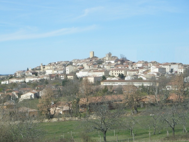 Aurignac - from the south (1024x631)